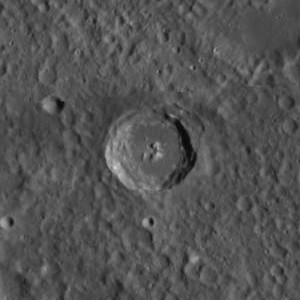 Barney crater, on Mercury. MESSENGER Wide Angle Camera mosaic. Image is approximately 99 km wide.